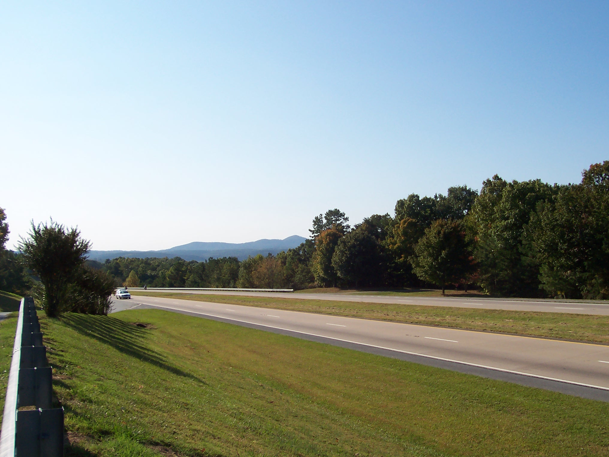 Georgia State Routes 5 and 515 looking south from the scenic overlook in northern Pickens County.